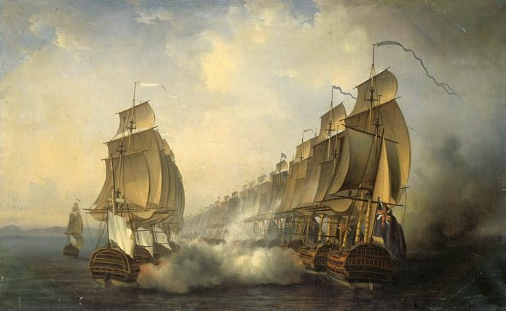 Painting of the Battle of Cuddalore (June 20th 1783) between the French navy commanded by the Bailli de Suffren and the British one under the orders of Rear-Admiral Edward Hughes